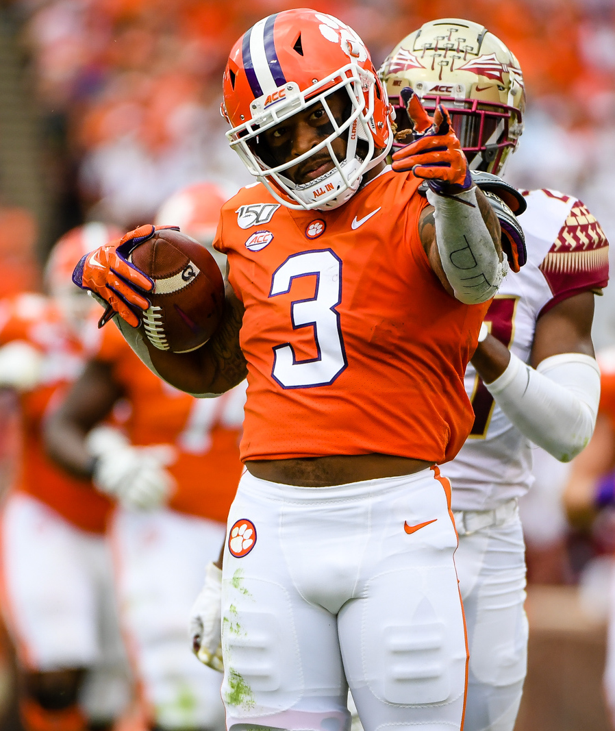 Amari Rodgers vs. Florida State